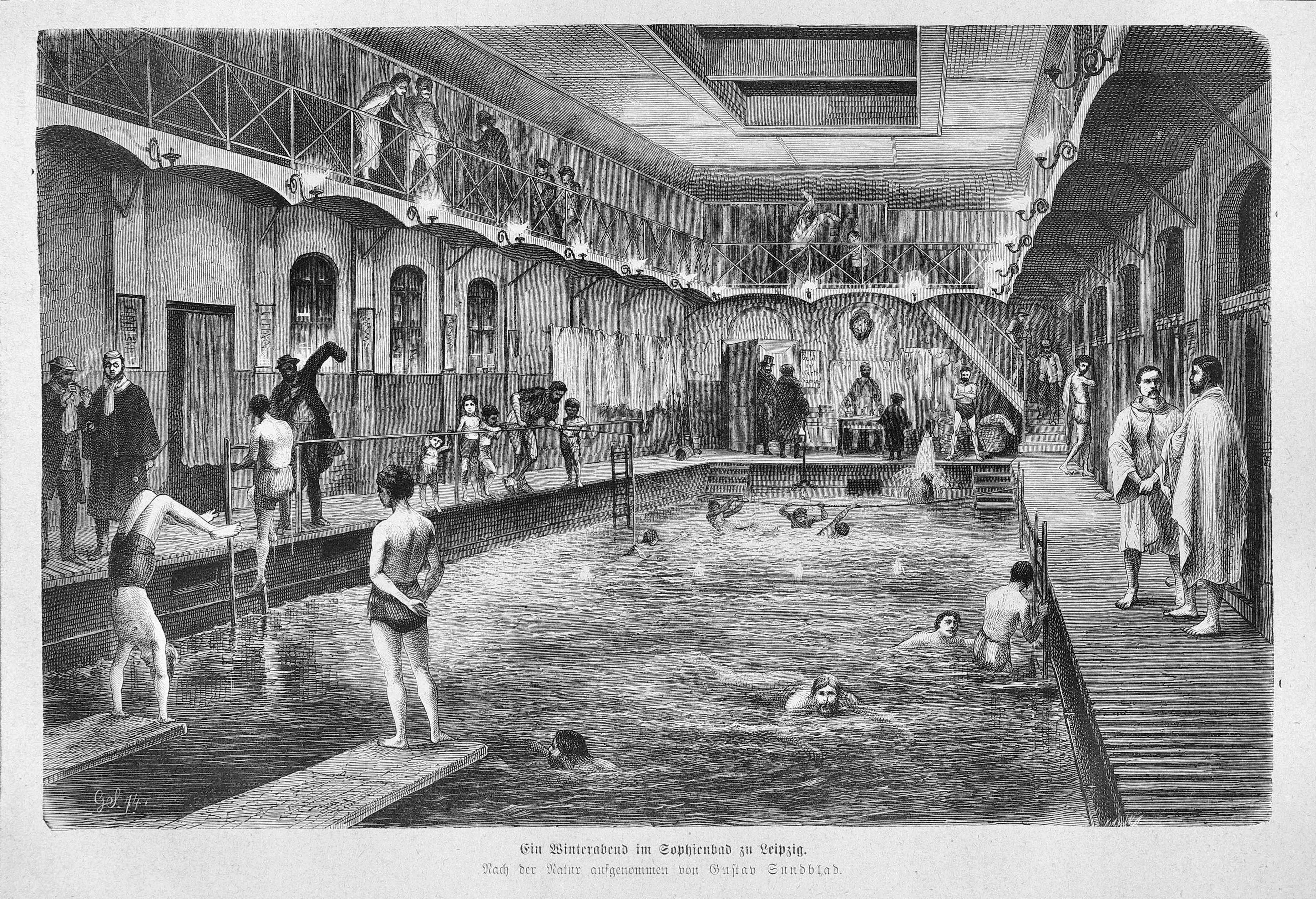 caption: "Ein Winterabend im Sophienbad zu Leipzig. Nach der Natur aufgenommen von Gustav Sundblad."